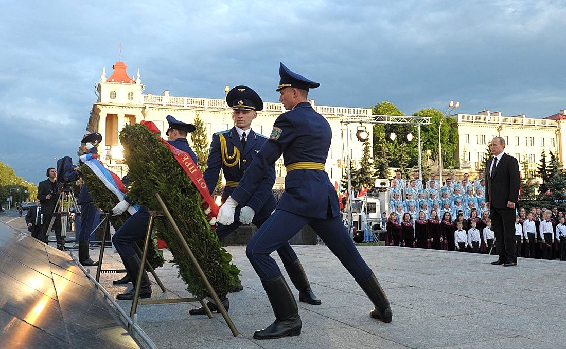 A wreath-laying ceremony at the Victory Memorial in Minsk.